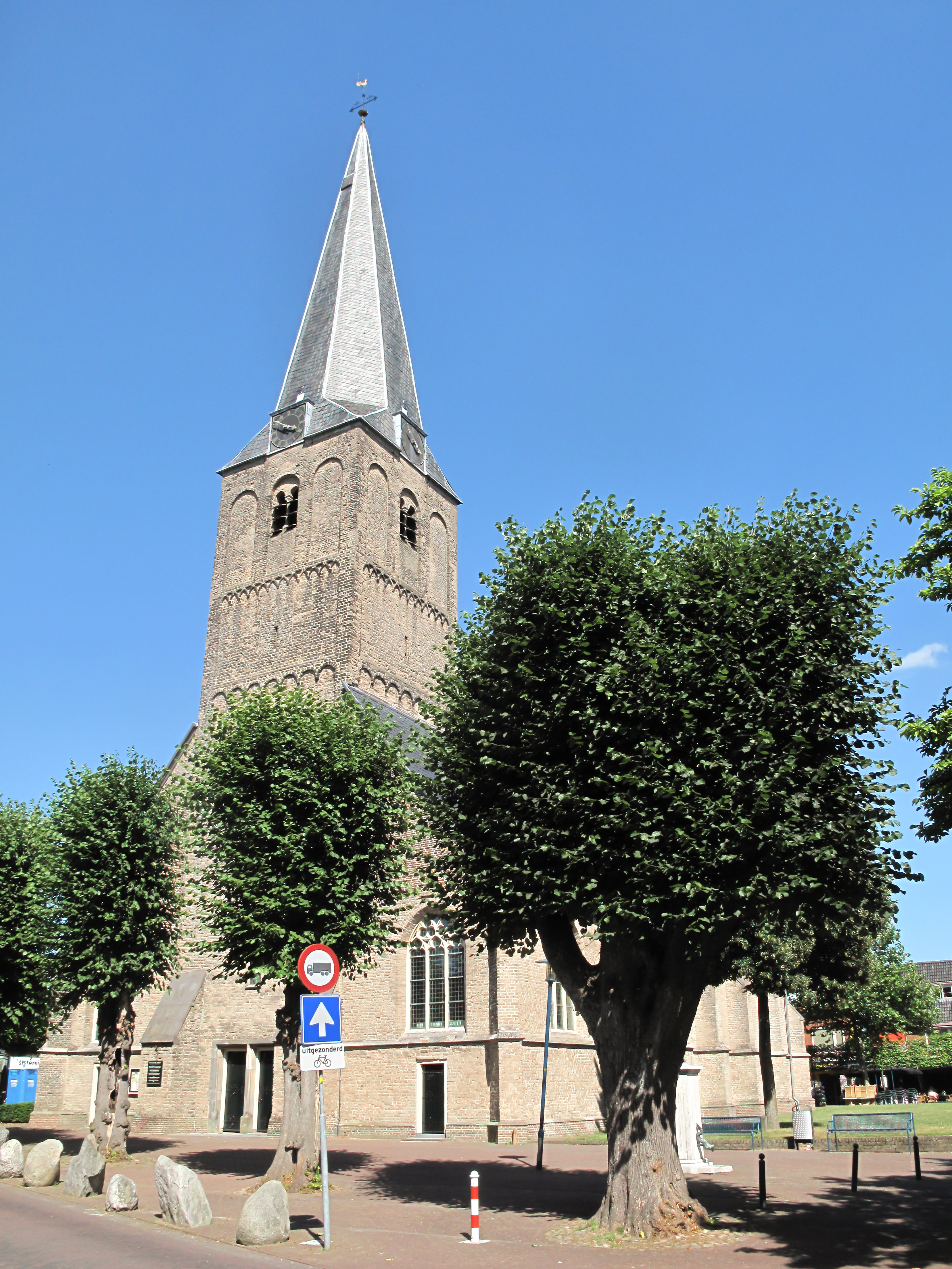 Epe, church: de Martinus Grote Kerk